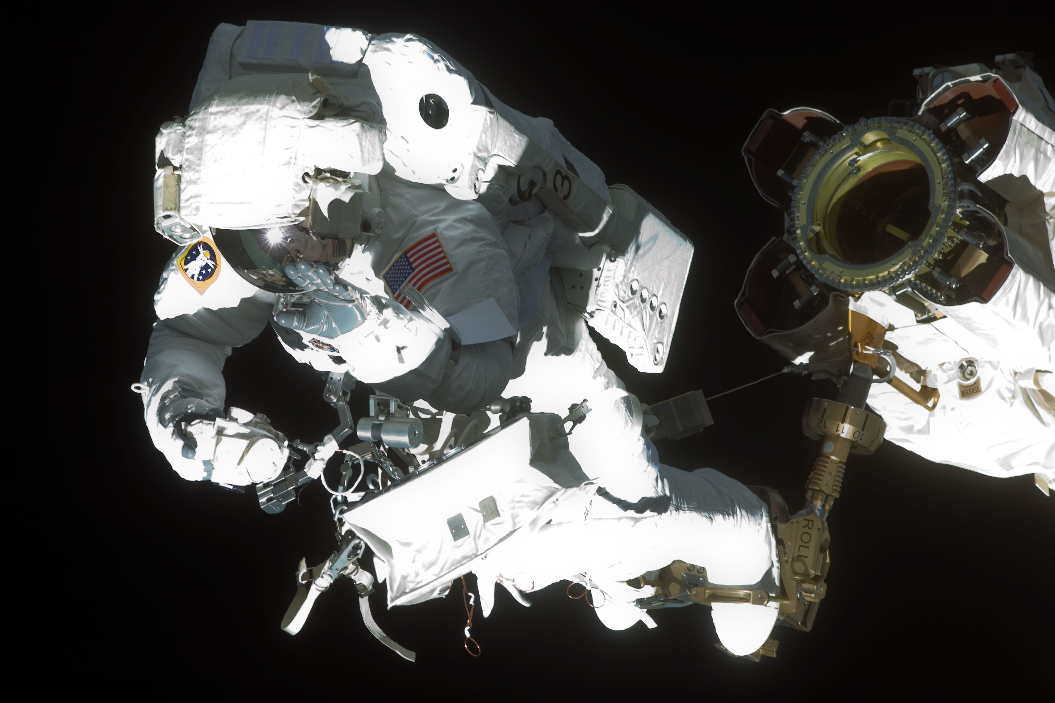 Astronaut Robert L. Satcher Jr., STS-129 mission specialist, participates in the mission's first session of extravehicular activity (EVA) as construction and maintenance continue on the International Space Station. During the six-hour, 37-minute spacewalk, Satcher and astronaut Mike Foreman (out of frame), mission specialist, installed a spare S-band antenna structural assembly to the Z1 segment of the station's truss, or backbone. Foreman and Satcher also installed a set of cables for a future space-to-ground antenna on the Destiny laboratory and replaced a handrail on the Unity node with a new bracket used to route an ammonia cable that will be needed for the Tranquility node when it is delivered next year. The two spacewalkers also repositioned a cable connector on Unity, checked S0 truss cable connections, and lubricated latching snares on the Kibo robotic arm and the station's mobile base system.